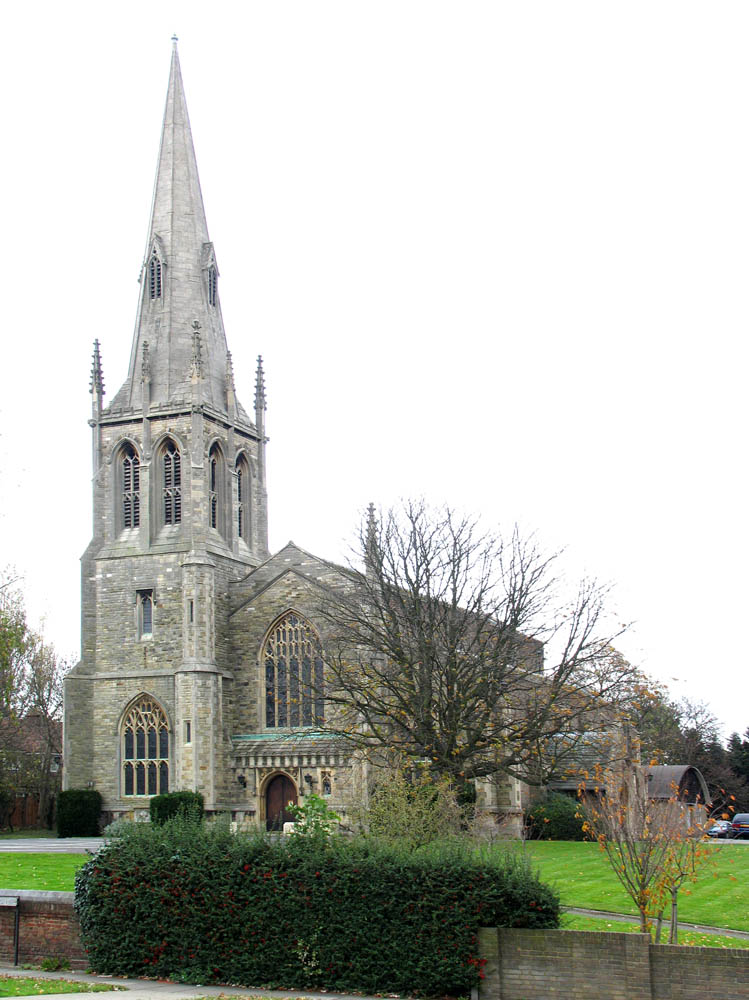 St Andrew, Church Lane, London NW9